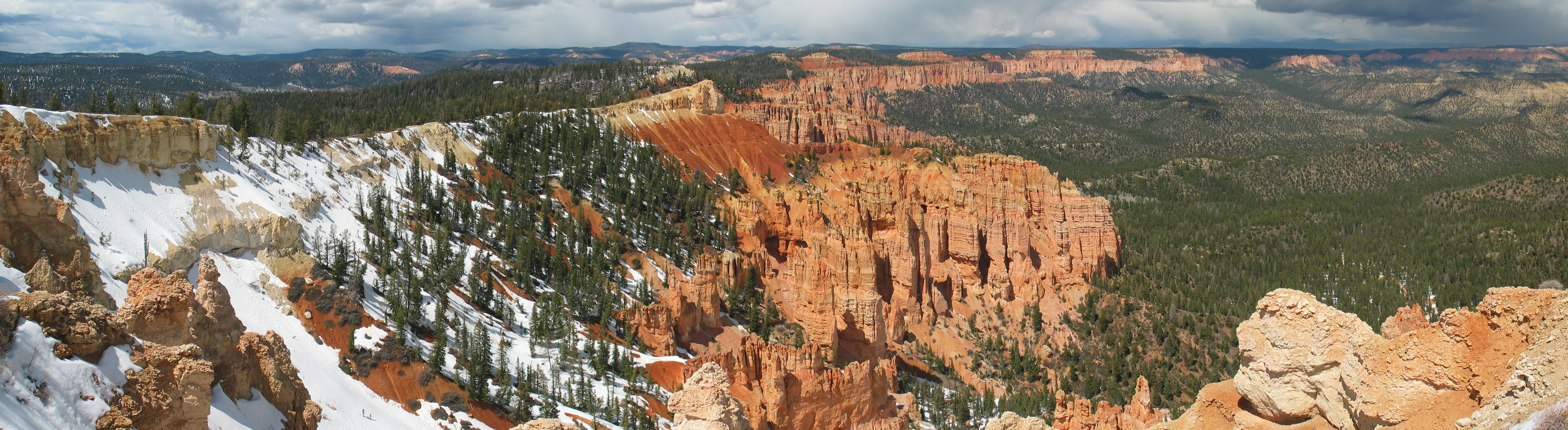 Bryce Canynon National Park, Utah, USA. Panoramic view